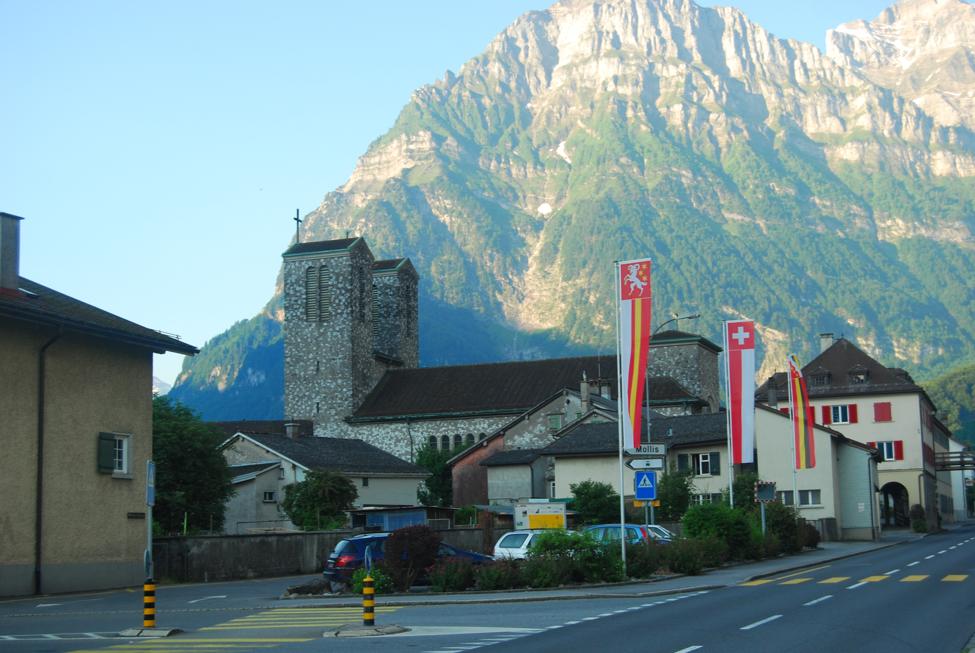 Catholic church of Netstal, canton of Glarus, Switzerland